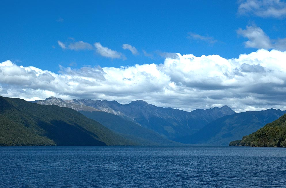 Photograph by James Shook, who retains copyright and releases the image under the license shown below